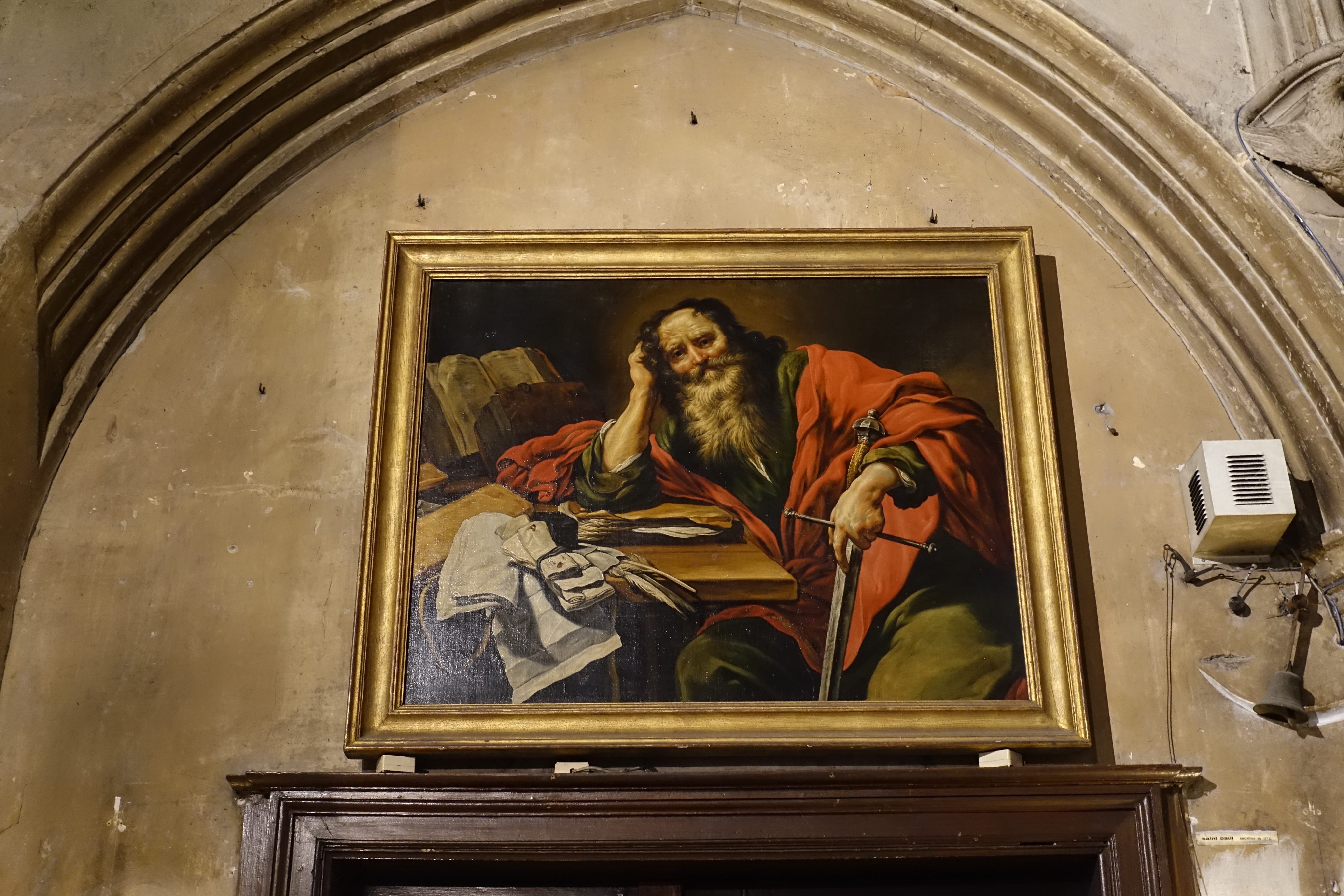 Claude Vignon (1593 – 1670) "Saint Paul". Church of Saint-Séverin, a Roman Catholic church in the Latin Quarter of Paris, located on the lively tourist street Rue Saint-Séverin.